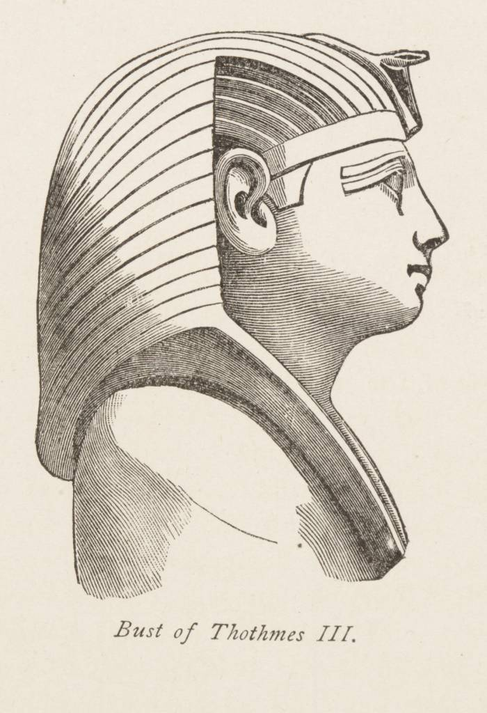 Bust of a young man. He wears a large headdress but the picture only show this from profile.